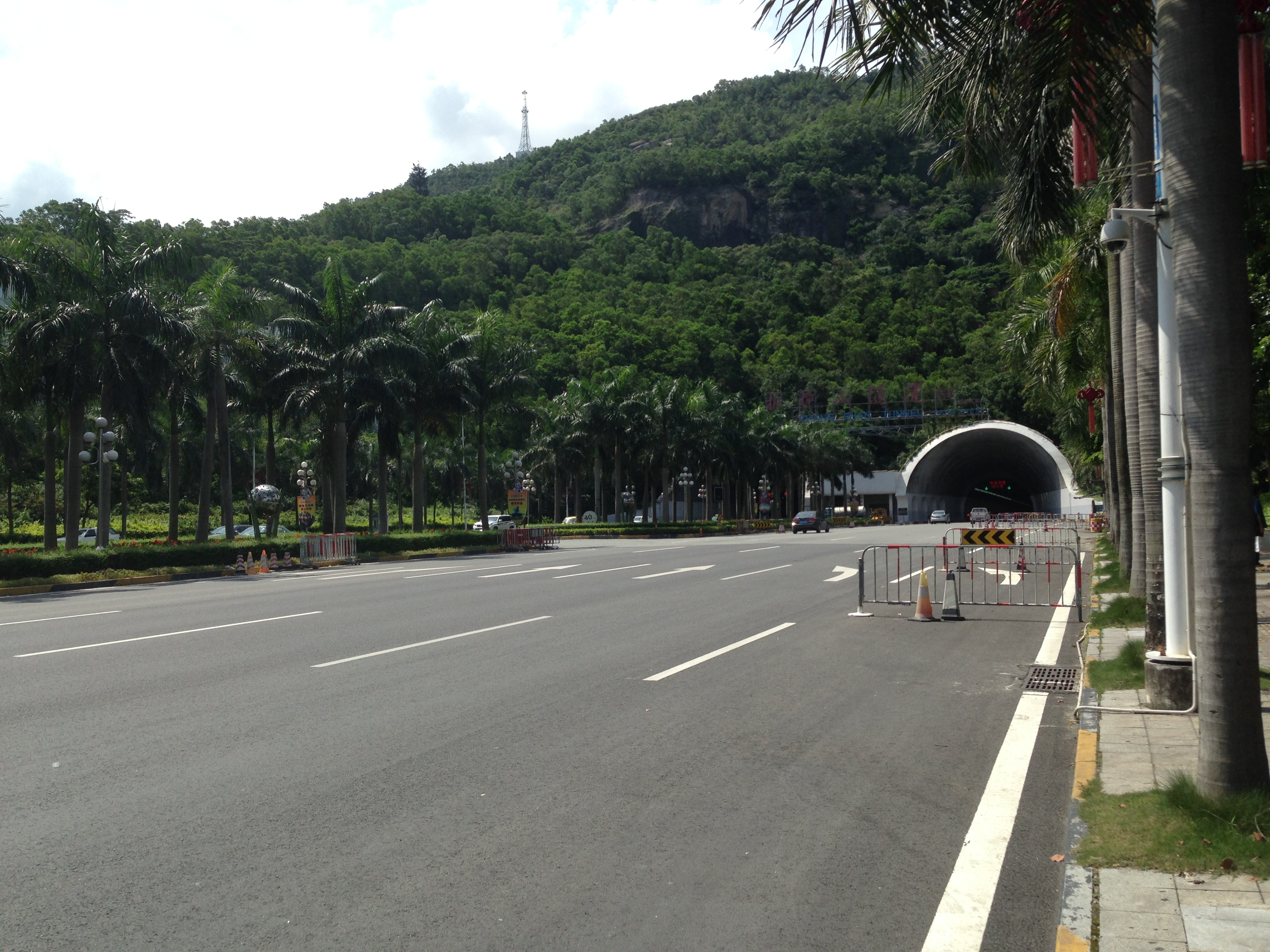 Banzhangshan Tunnel